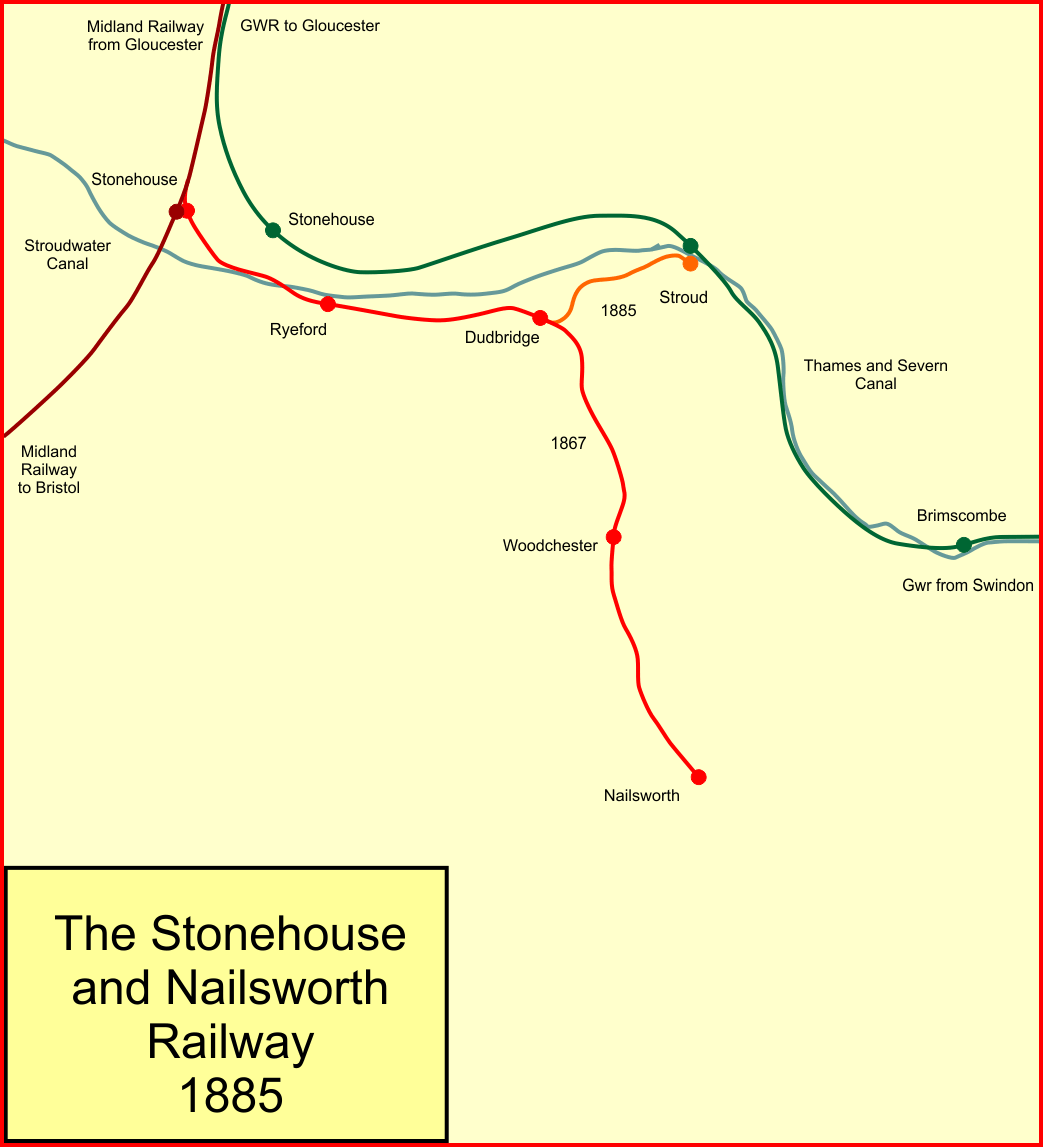 System map of the Nailsworth and Stroud railway branches, Gloucestershire, England